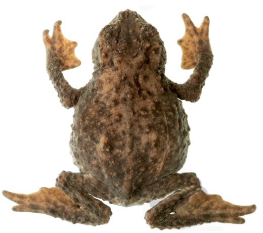 Osornophryne simpsoni in alcohol. Dorsal, ventral and lateral view of adult female, DH-MECN 5260, SVL 33.0 mm.